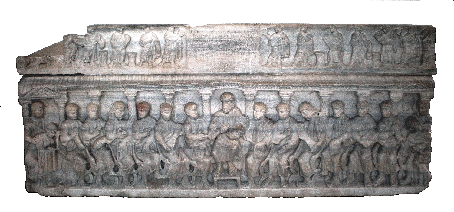 Sarcophagus of Concordius